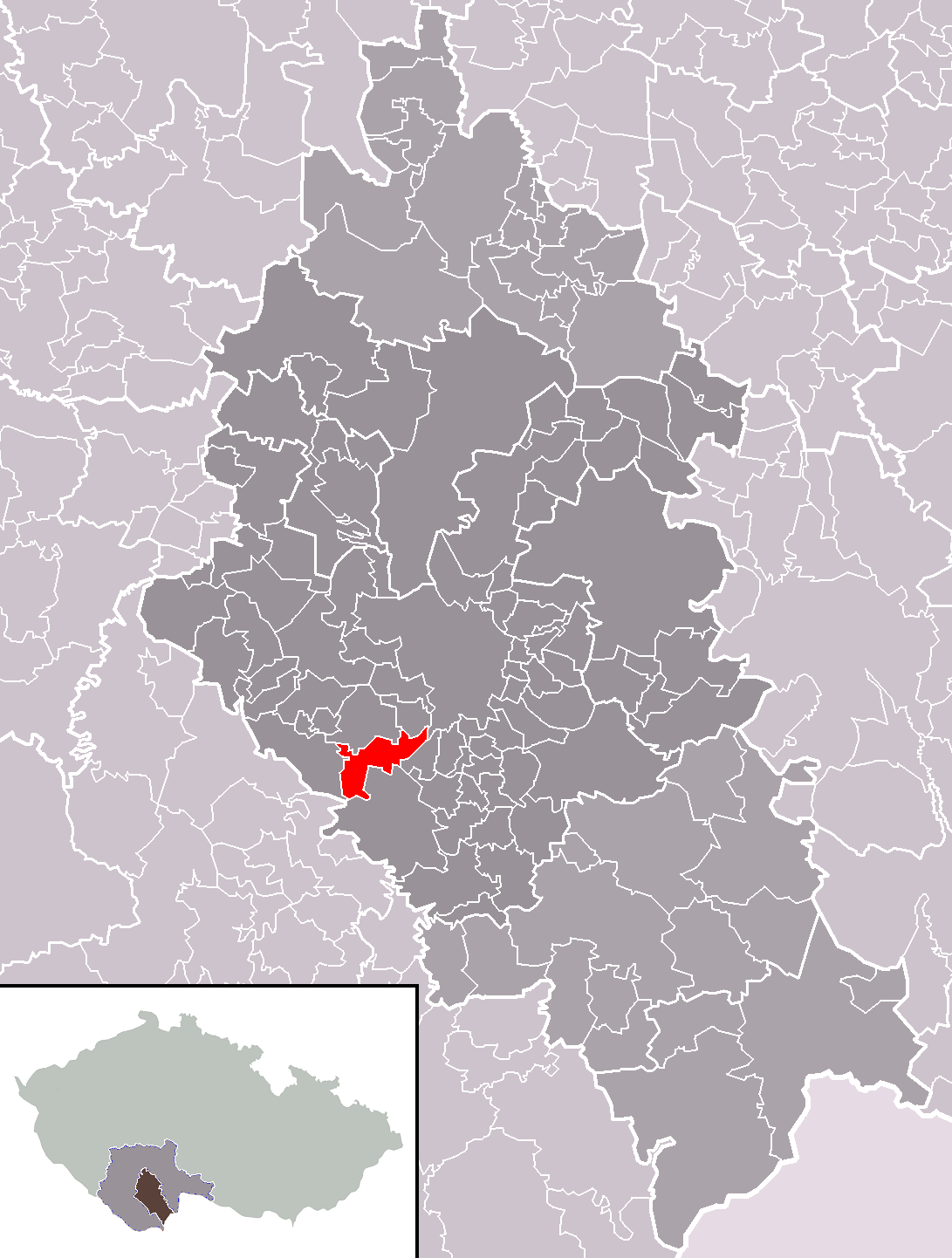 Location of Boršov nad Vltavou municipality within České Budějovice District and administrative area of České Budějovice as a Municipality with Extended Competence.